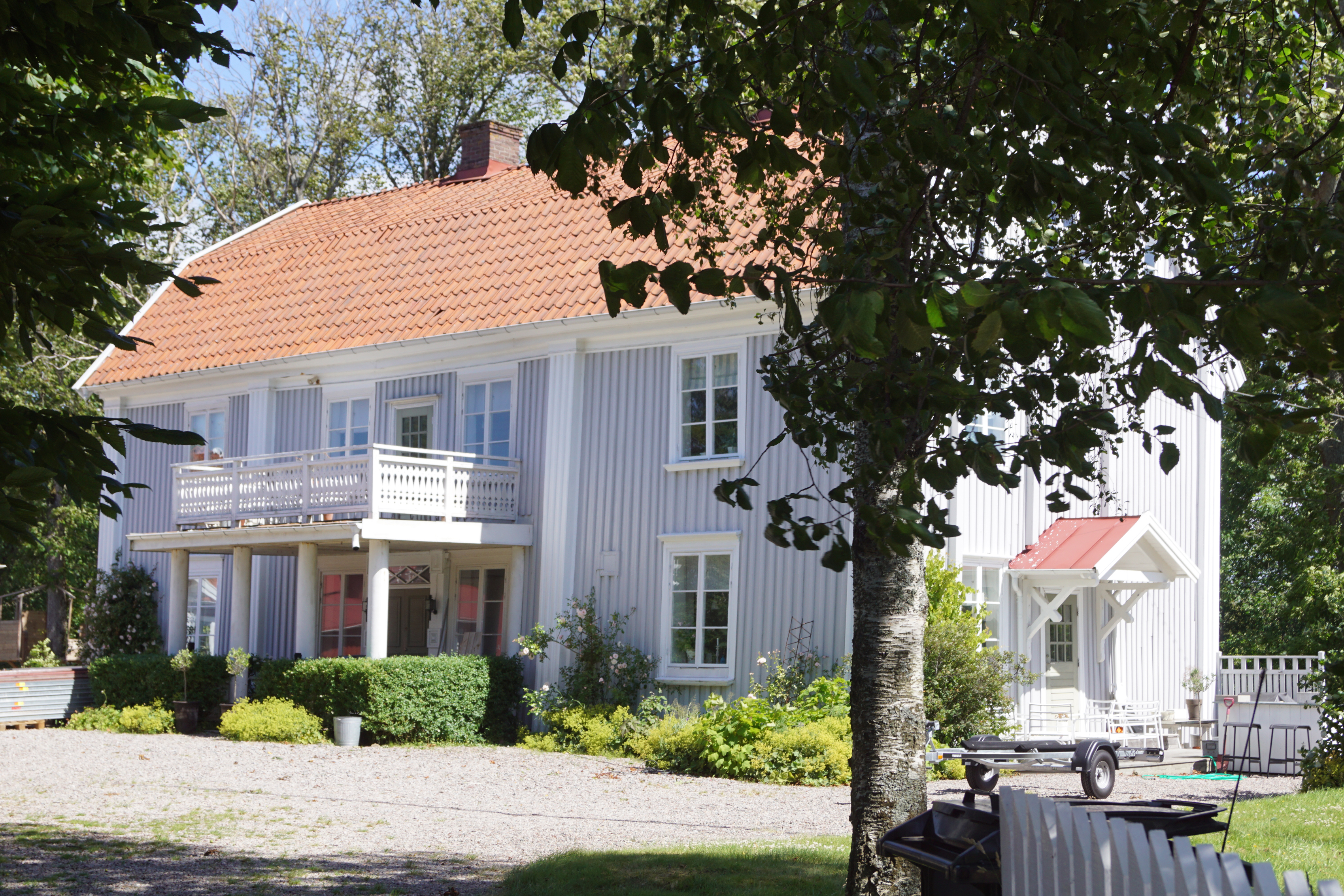 Stora Holm Mansion in Göteborg Municipality, Västra Götaland County, Sweden